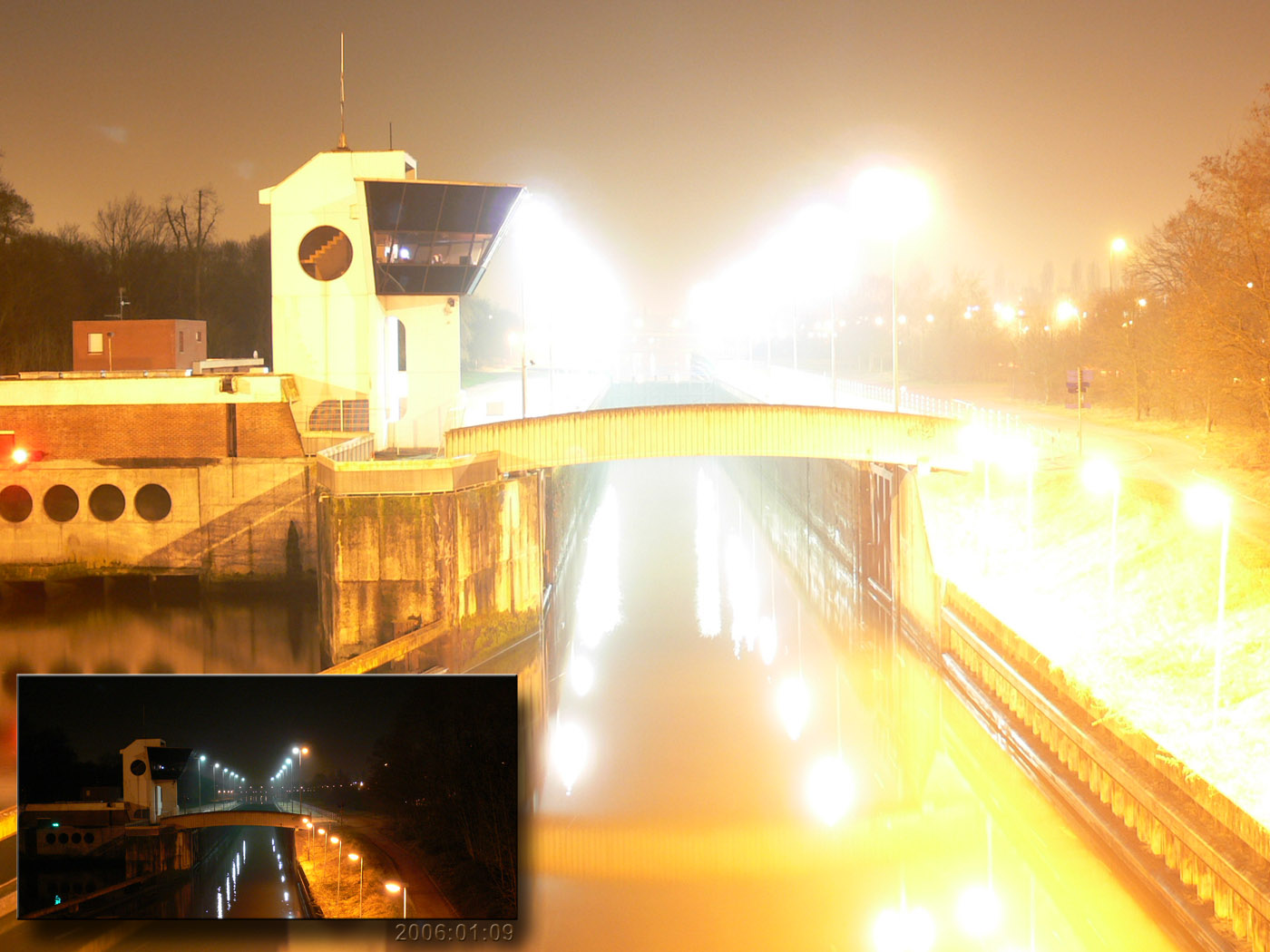 light pollution